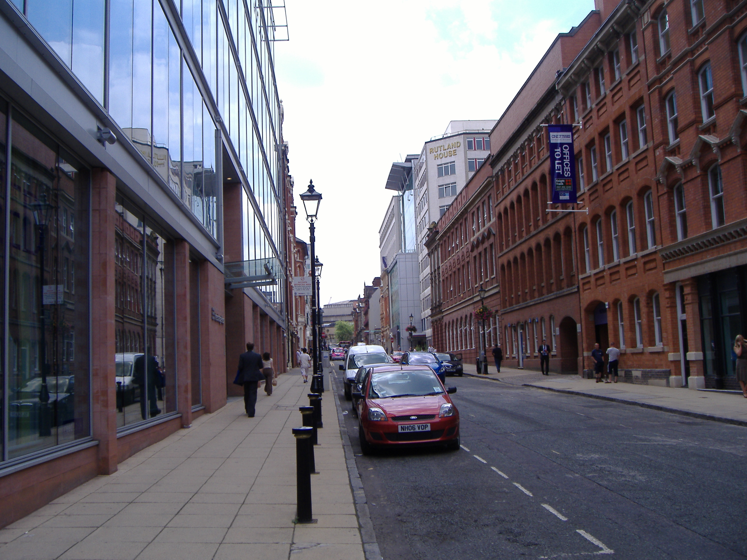 A length of Edmund Street in Birmingham, England.